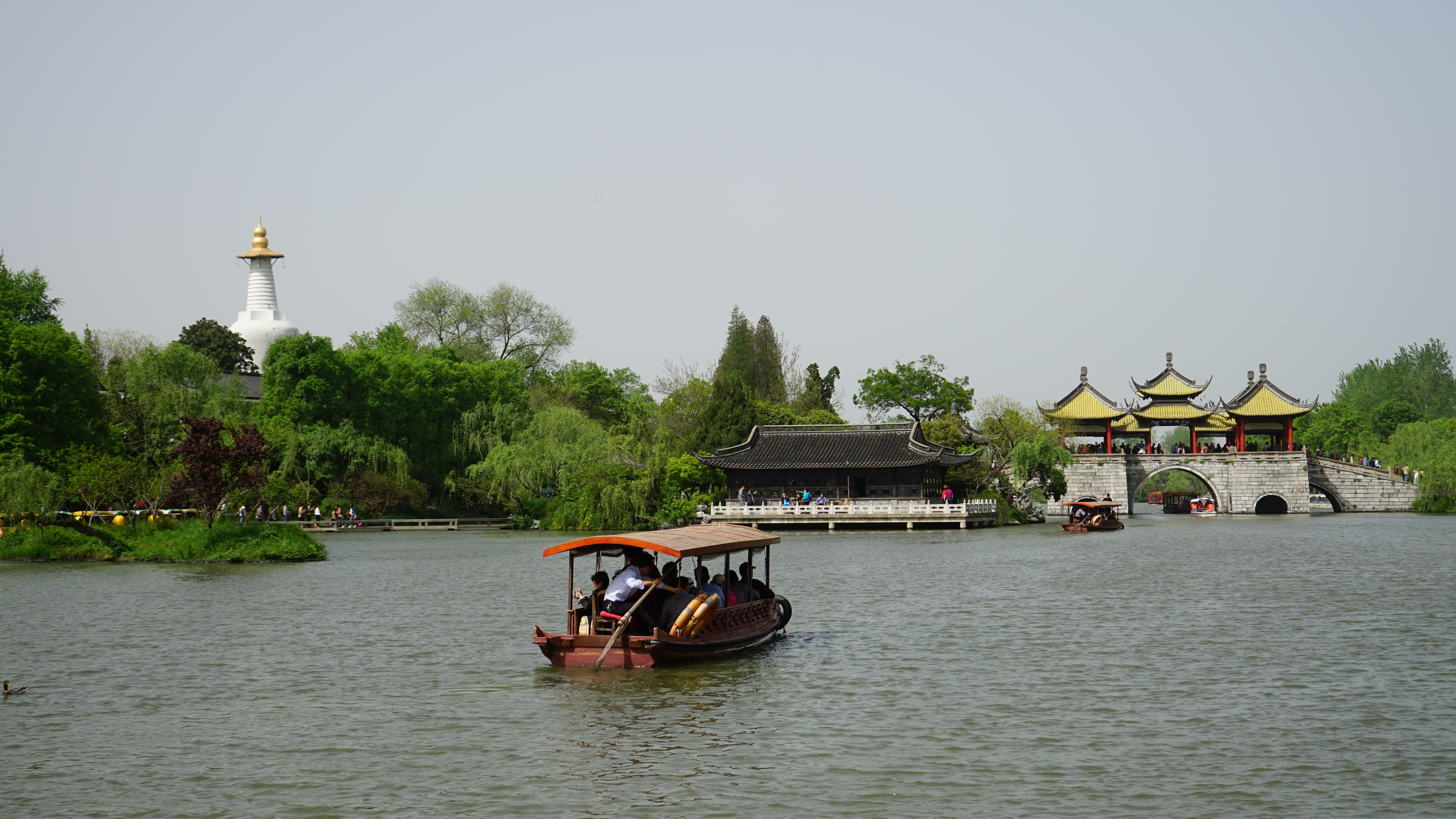 Five Pavilion Bridge and White Pagoda